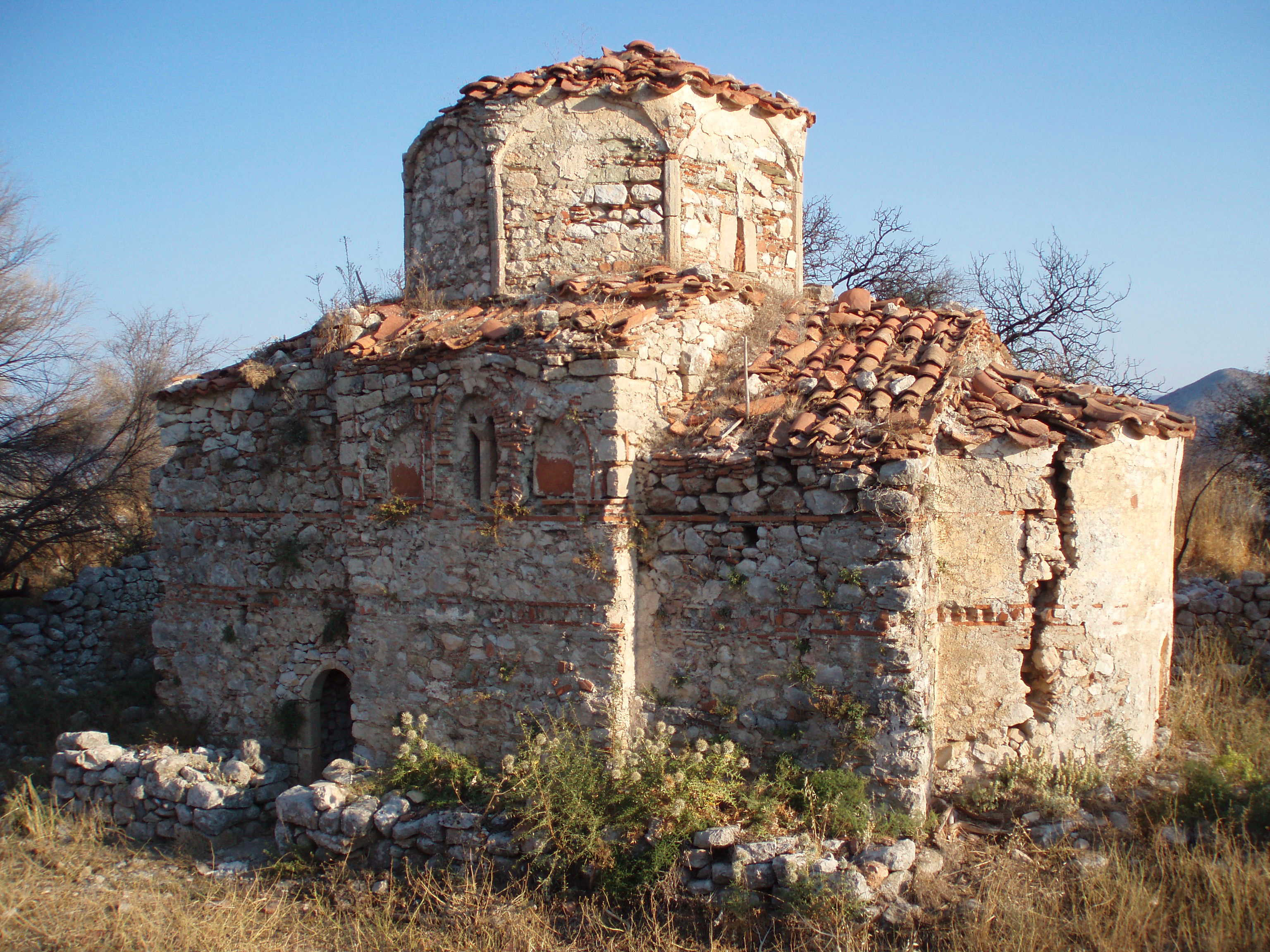 Saint George church, near Karyopolis, Laconia